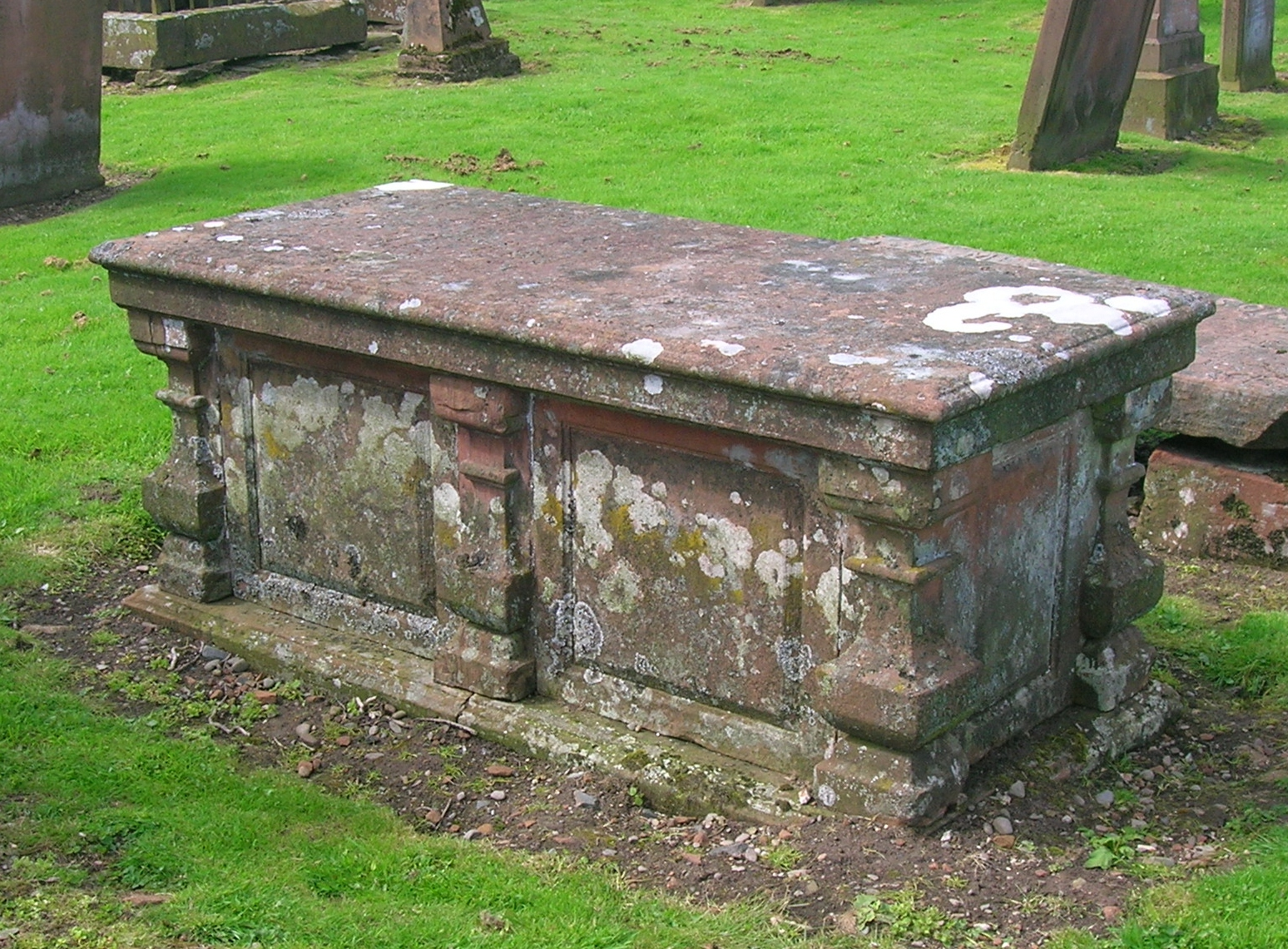 The grave of Robert Riddell of Glenriddell (Friars' Carse), Auldgirth, Dumfries & Galloway, Scotland